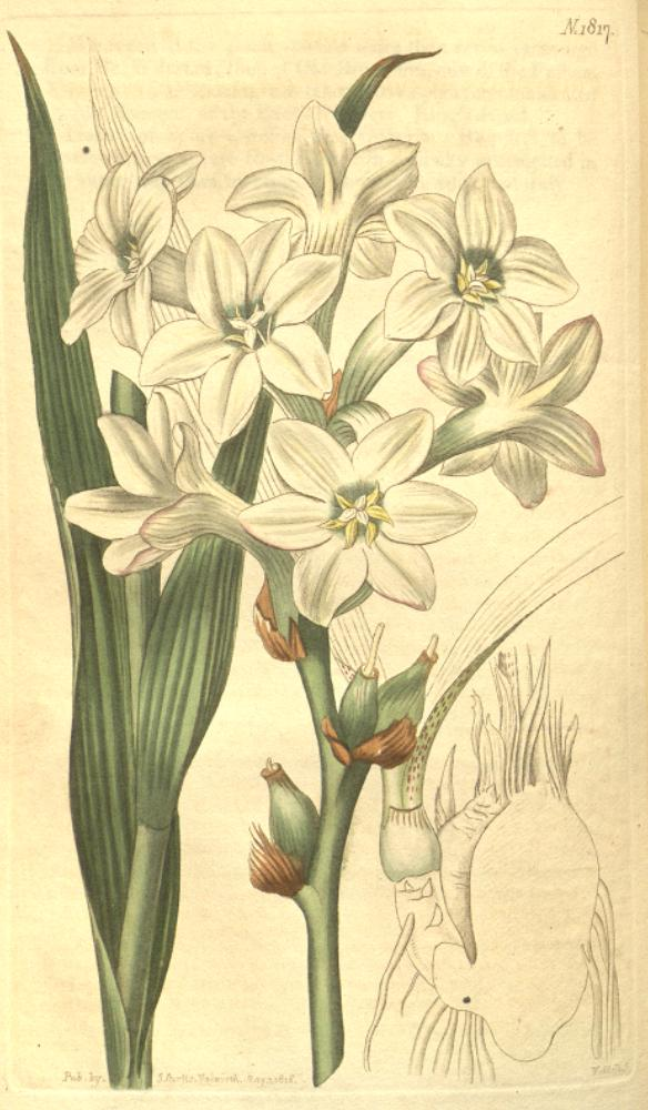 Illustration of Polianthes tuberosa